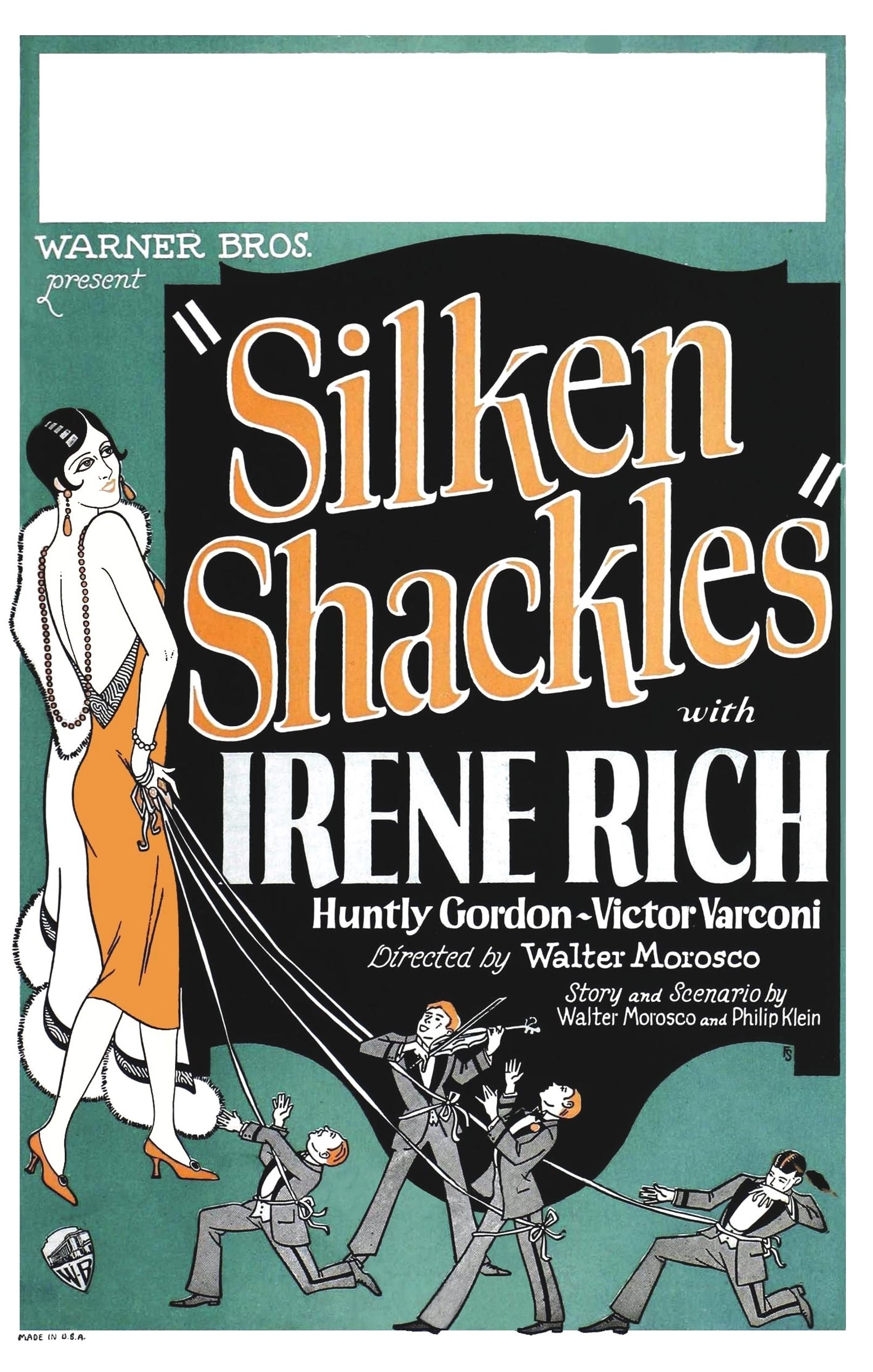 Poster for the 1926 film Silken Shackles. The item has no copyright markings on it as can be seen in the links above. At bottom left is Made in USA.